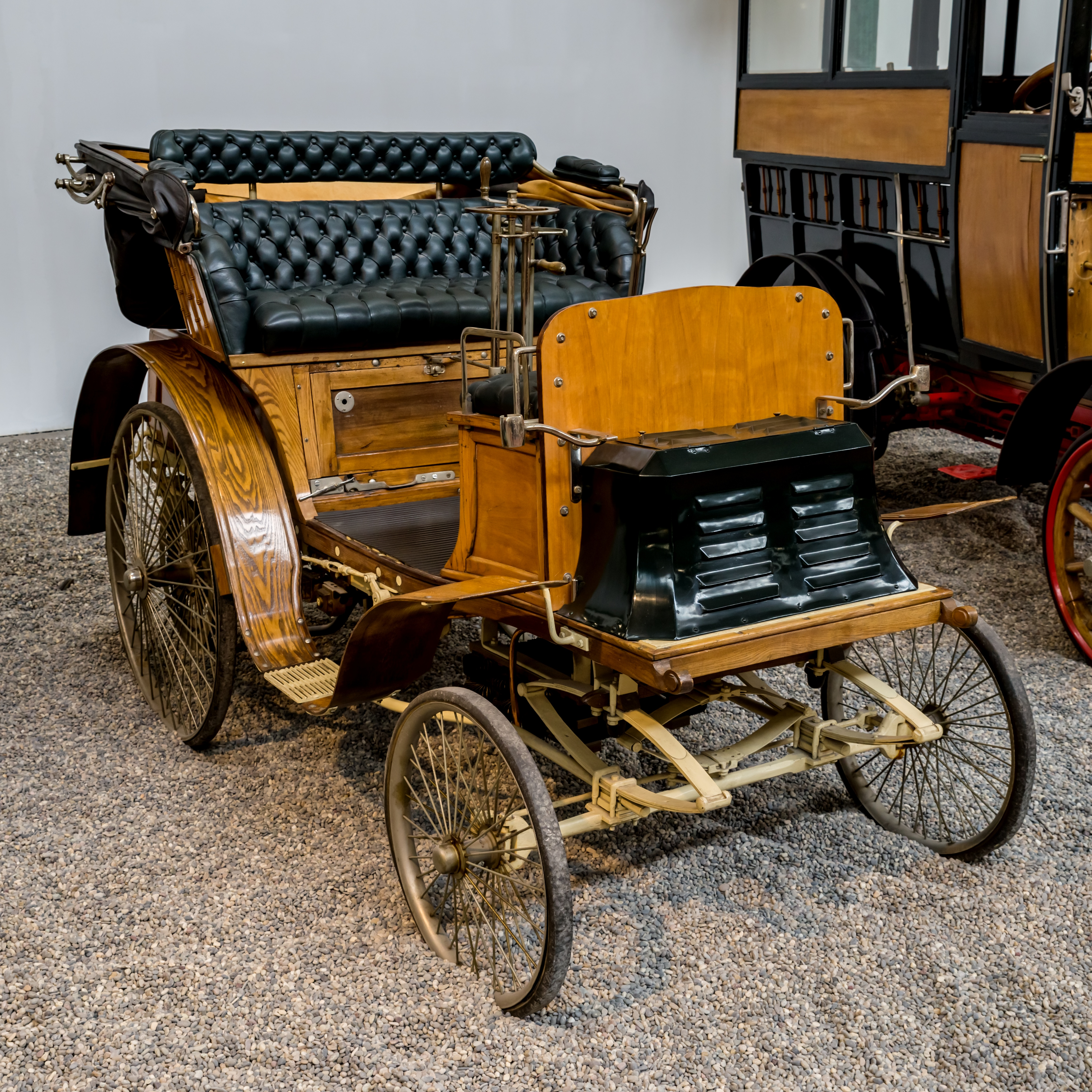 pictures from the Cité de l’Automobile – Musée National – Collection Schlump in Mulhouse, France ptictures from the 10. may 2018